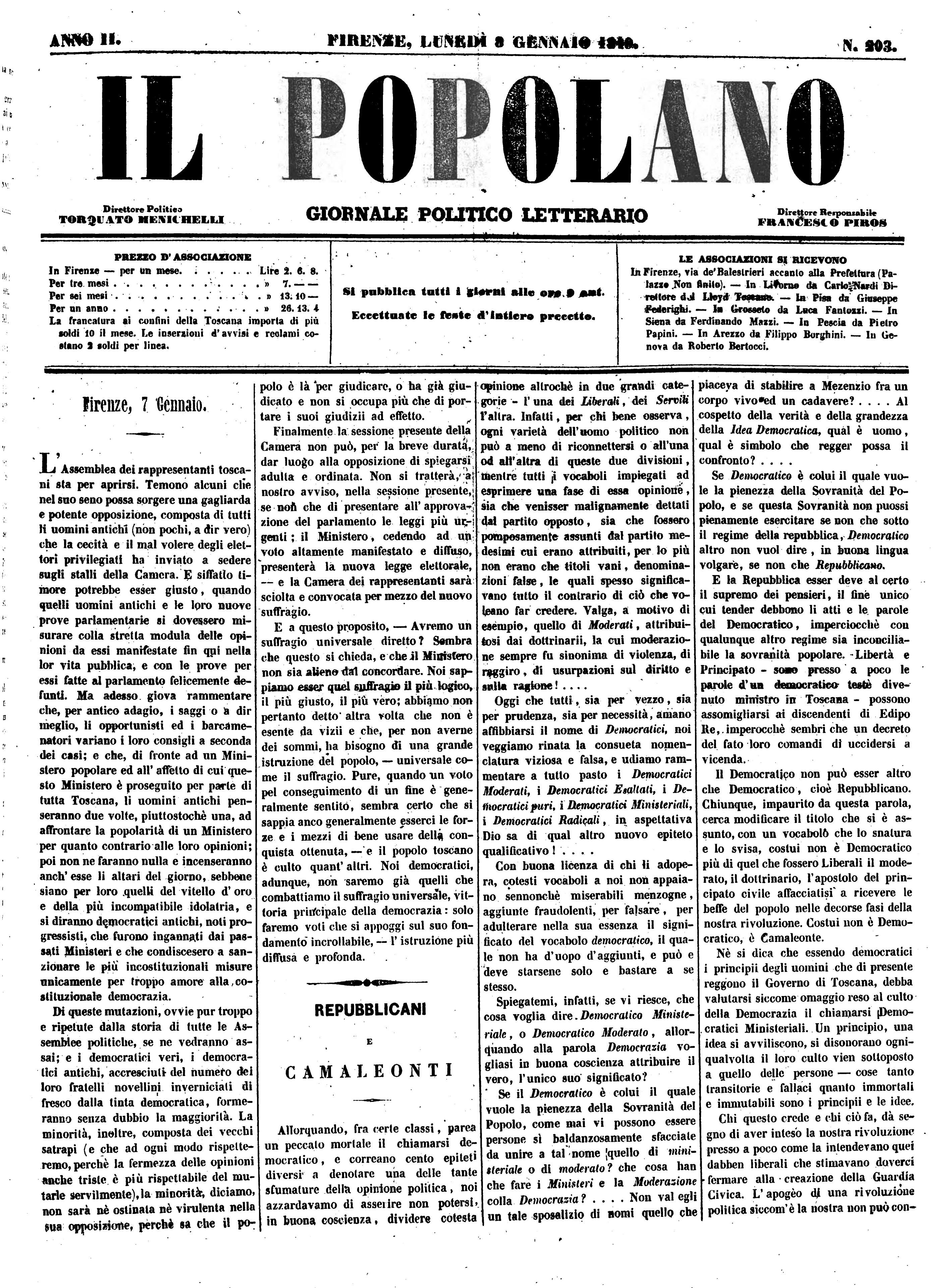 first page of risorgimental newspaper Il Popolano 9 january 1849